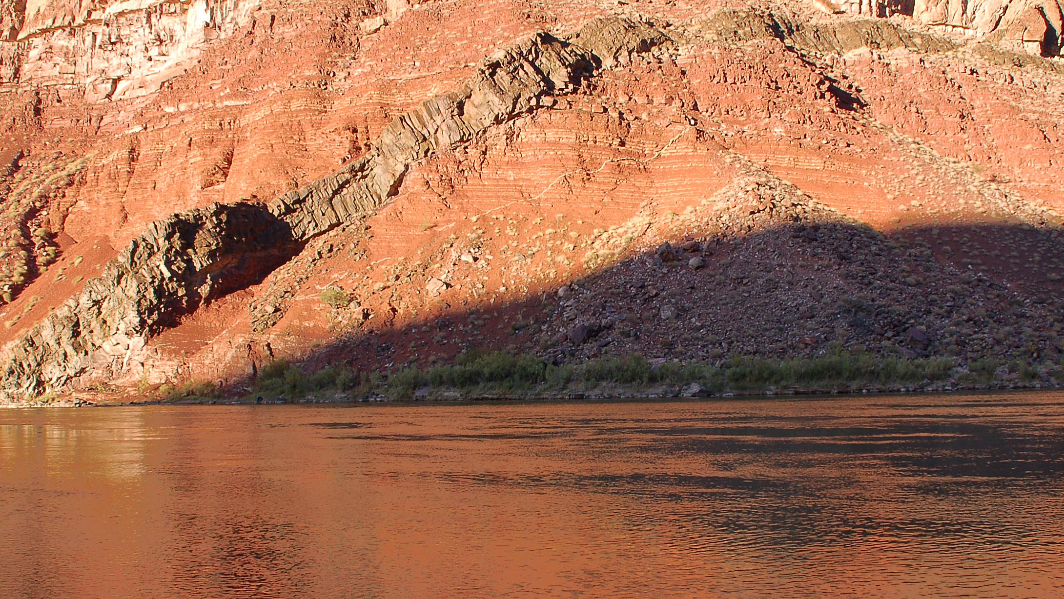 At Hance Creek, Basalt Dikes shoot through the Hakatai Shale, a geologic wonder easily seen from the end of the New Hance Trail. NPS Photo by: Carl Bowman Hakatai Shale Thickness: 445-985 feet This colorful formation contains layers of red sandstones, red shales, and blue to purple shales. As the sea level dropped, the environment slowly changed from a shallow sea to coastal mud flats. Mudcracks, raindrop impressions, and cross-beds are found in this layer.